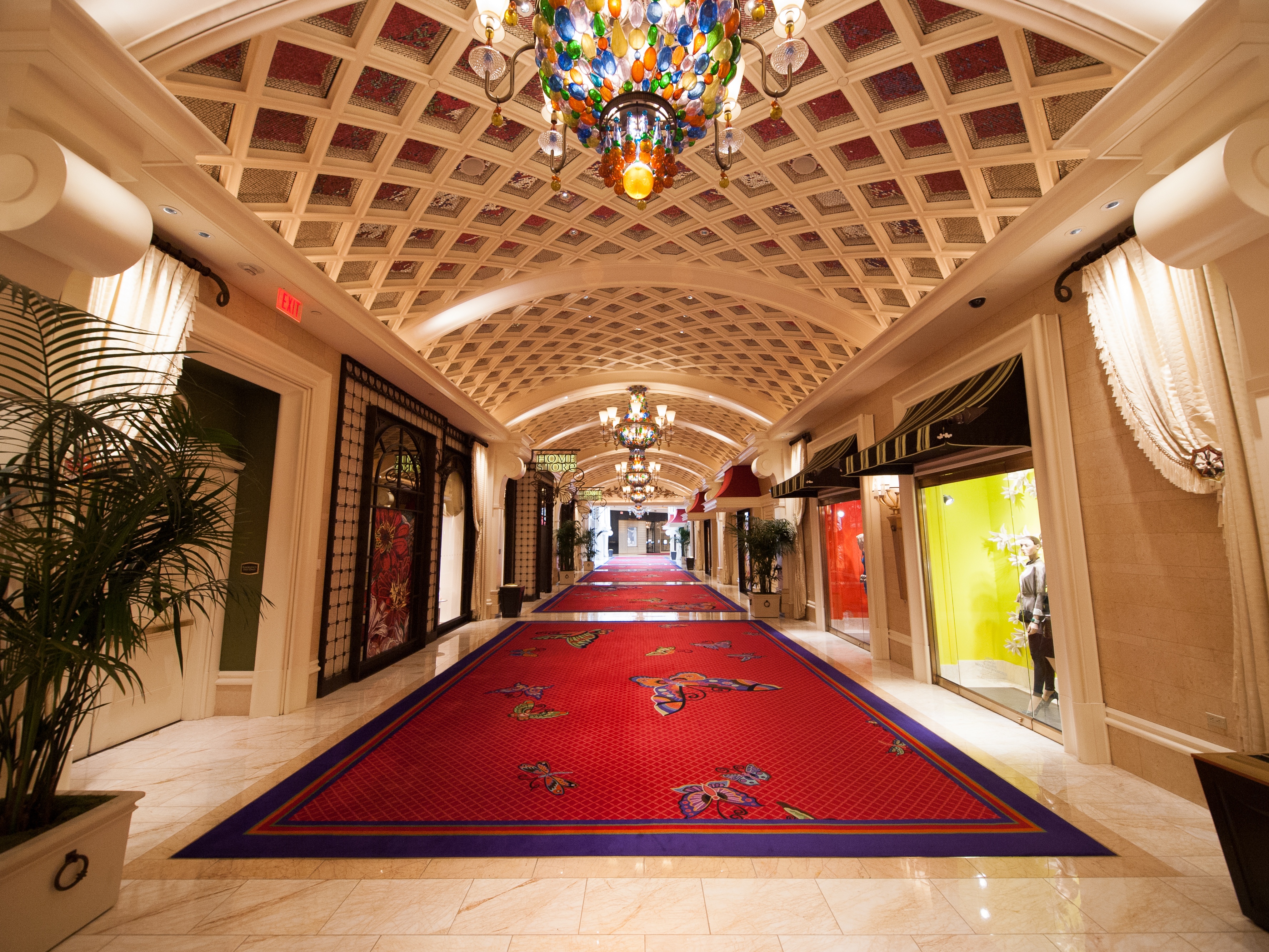 Hallway at the Wynn hotel in Las Vegas, Nevada PERMISSION TO USE: you are welcome to use this photo free of charge for any purpose including commercial. I am not concerned with how attribution is provided - a link to my flickr page or my name is fine. If the used in a context where attribution is impractical, that's fine too. I want my photography to be shared widely. I like hearing about where my photos have been used so please send me links, screenshots or photos where possible.